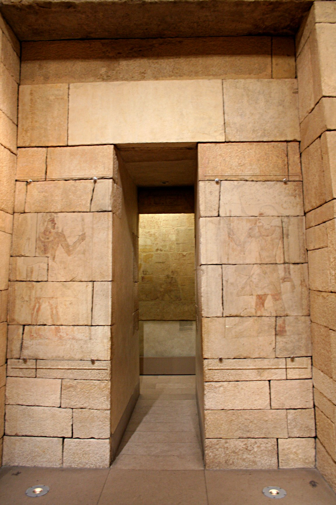 Photograph of the entrance to the Tomb of Perneb in the Metropolitan Museum of Art, New York City, New York, USA